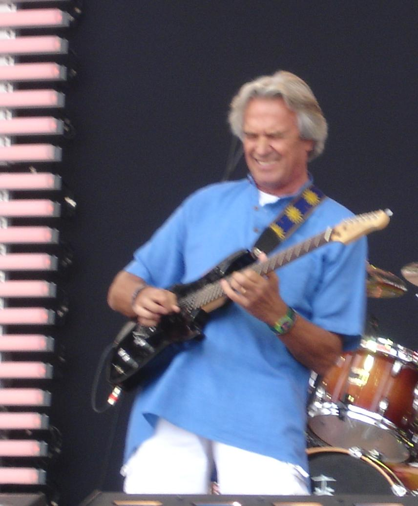 John McLaughlin performing at the Crossroads Guitar Festival in 2007